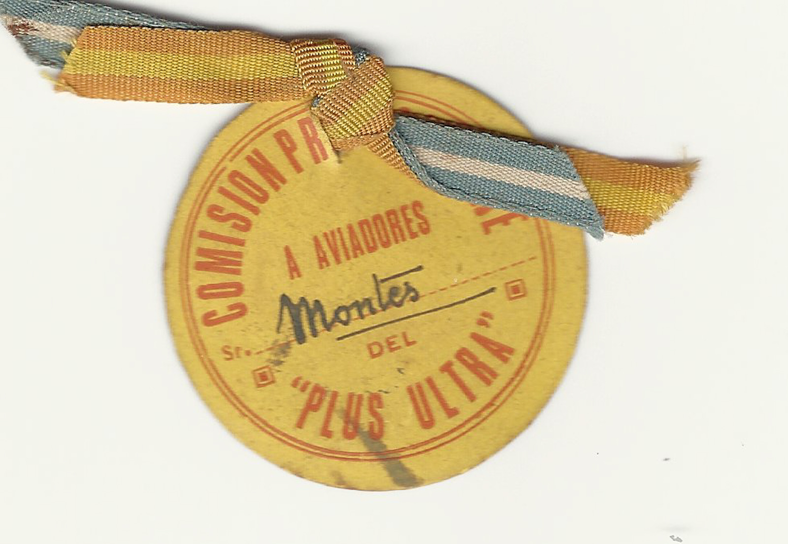 This is a commemorative token issued in 1926 by the Plus Ultra Welcoming Committee in Rosario, Argentina.